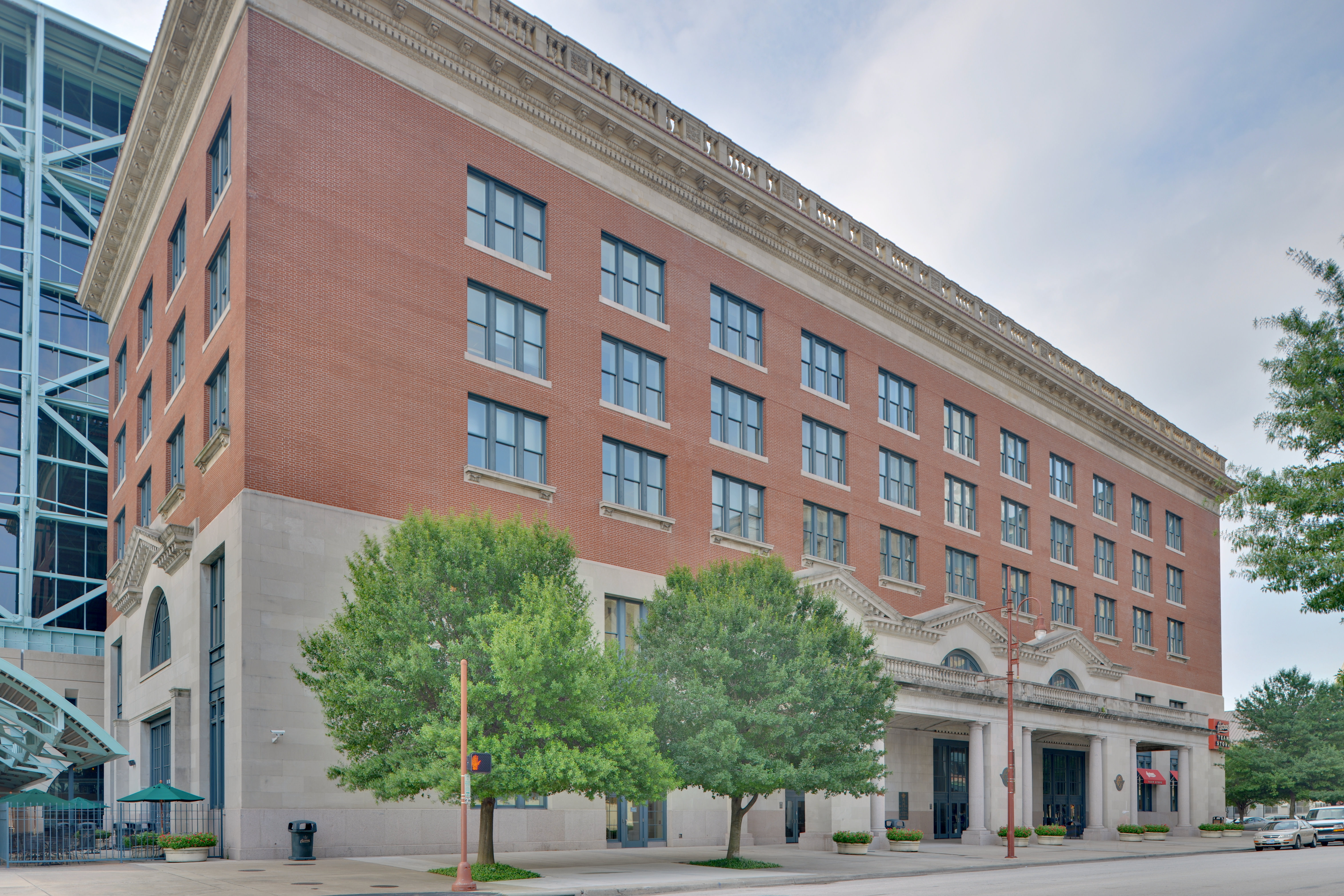 Union Station, at 501 Crawford St, Houston (Texas, USA) is now integrated into Minute Maid Park, the home of the Houston Astros major league baseball team. The station building is listed in the National Register of Historic Places.